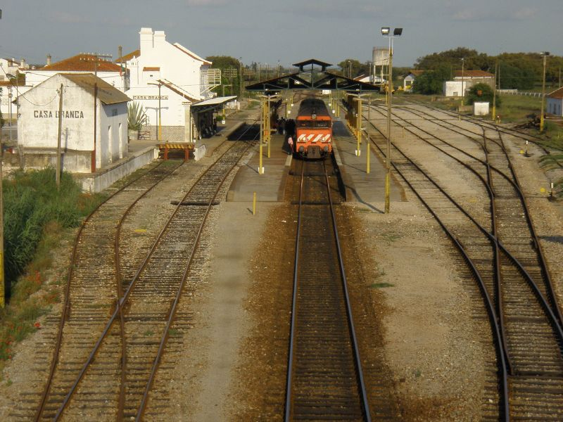 train station of Casa Branca